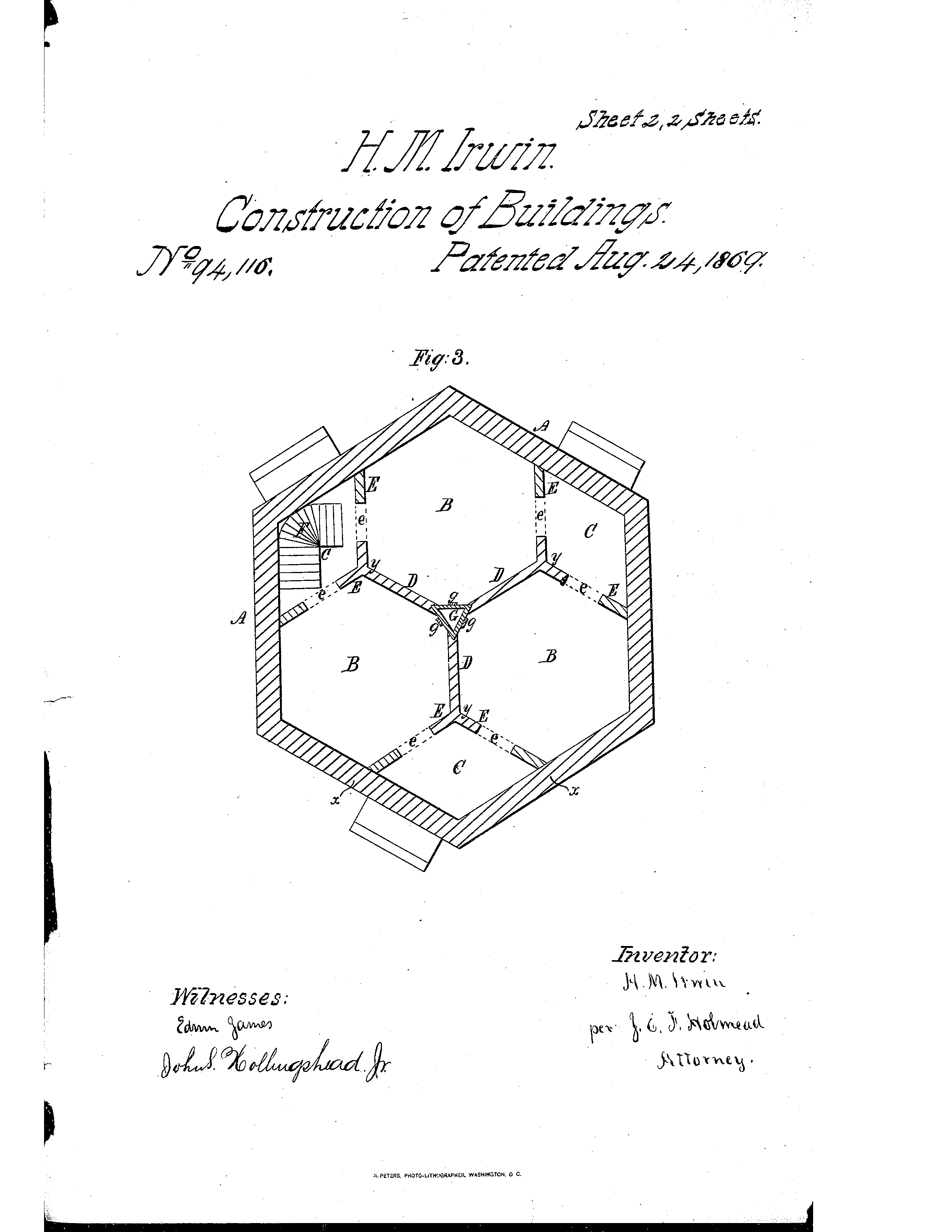 Harriet Morrison Irwin's Hexagonal House Second Image